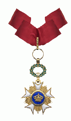 Order of the Crown Belgium